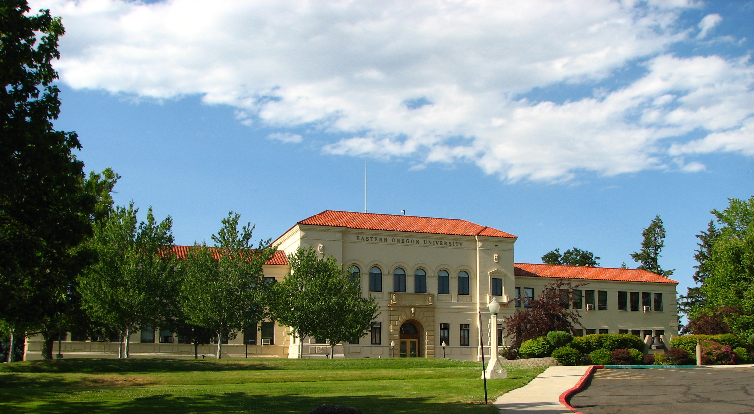 Eastern Oregon University's Inlow Hall (built 1927), located in La Grande, Oregon, United States, is listed on the US National Register of Historic Places as "Administration Building".